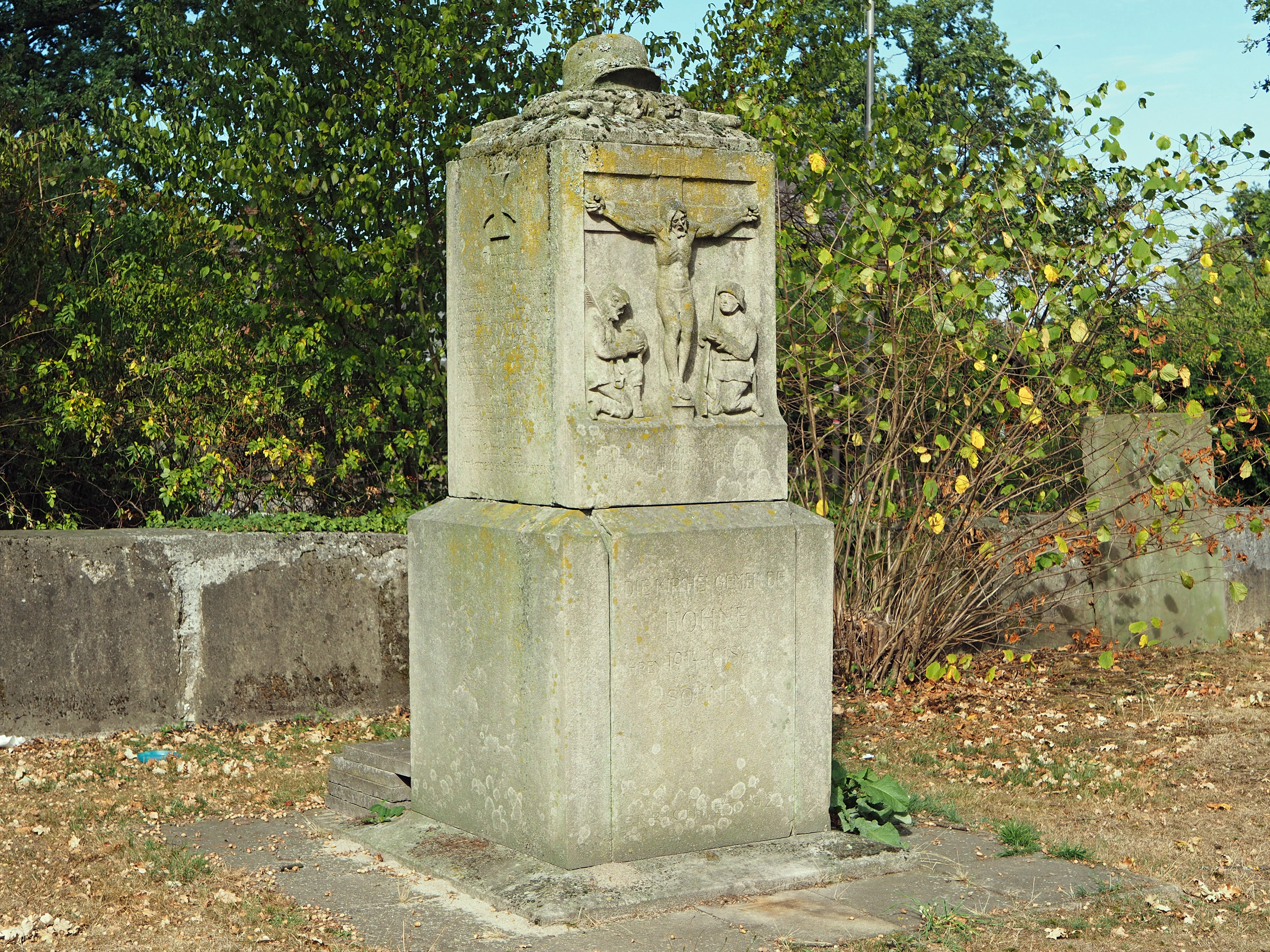 1914-18 war memorial in Hohne, Lower Saxony, Germany